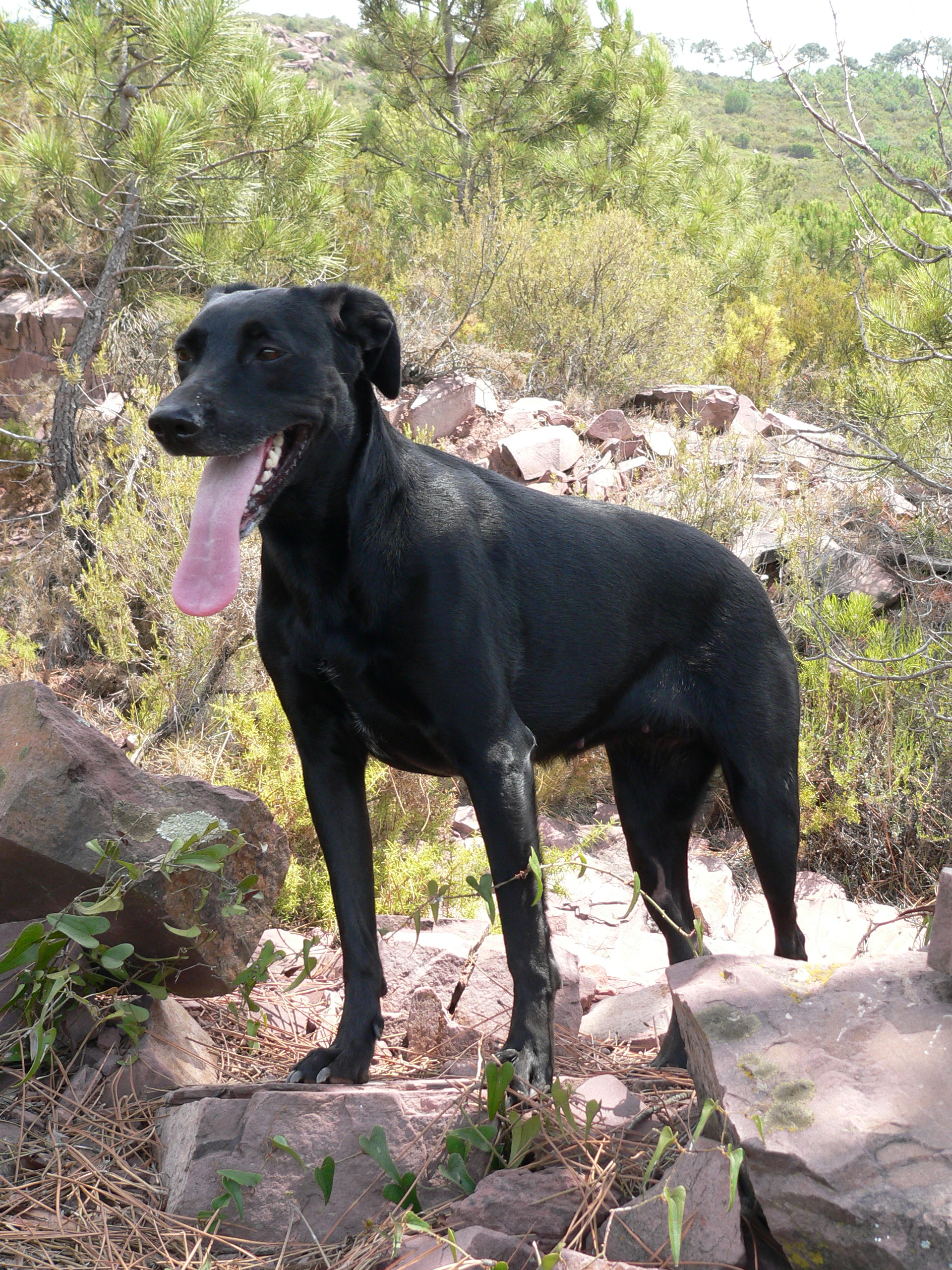 Ca de bestiar, Majorca shepherd dog